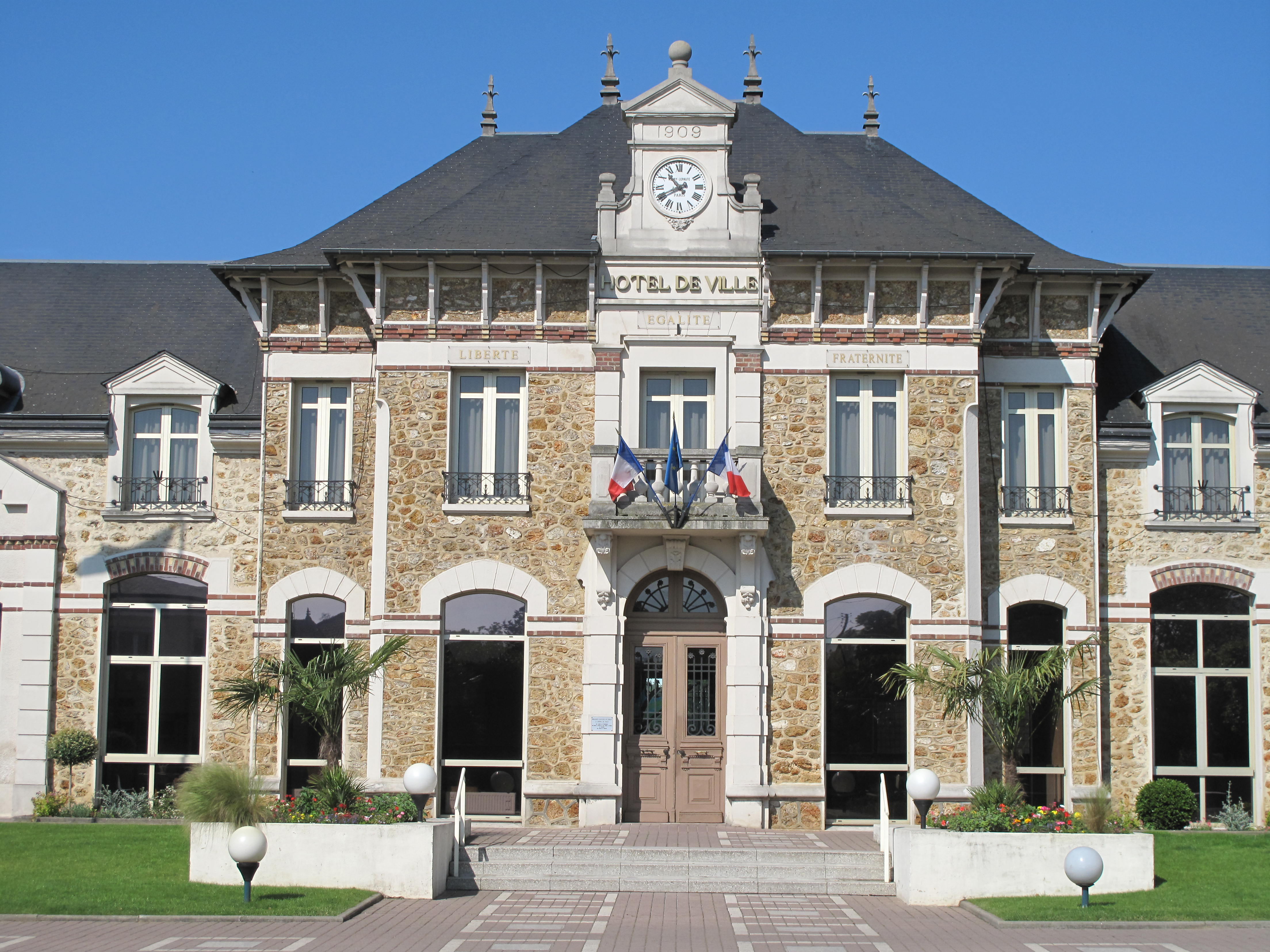 Central part of the Vaires-sur-Marne town hall (1909)